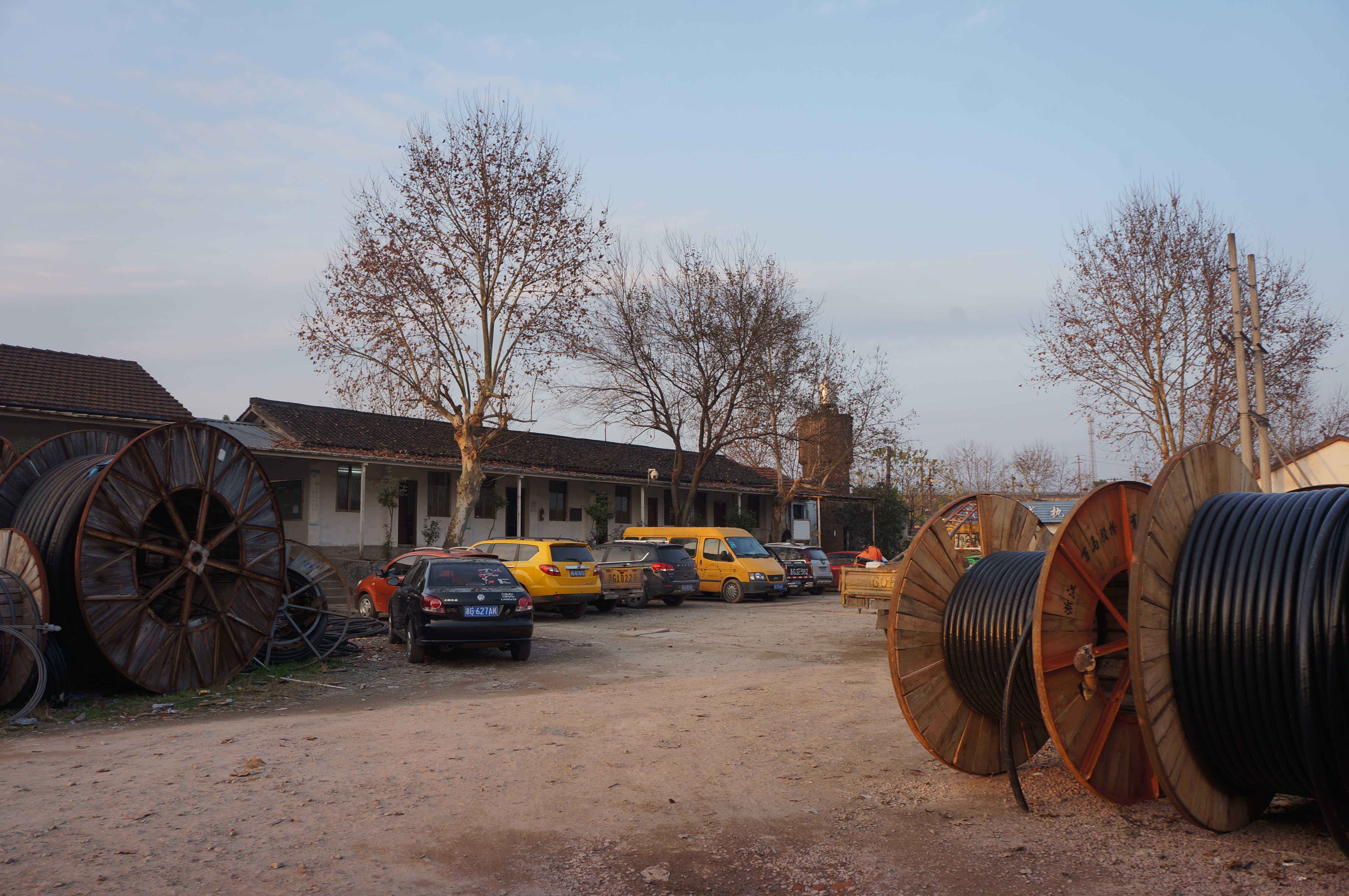 201612 Old Station building of Dongxiao Station